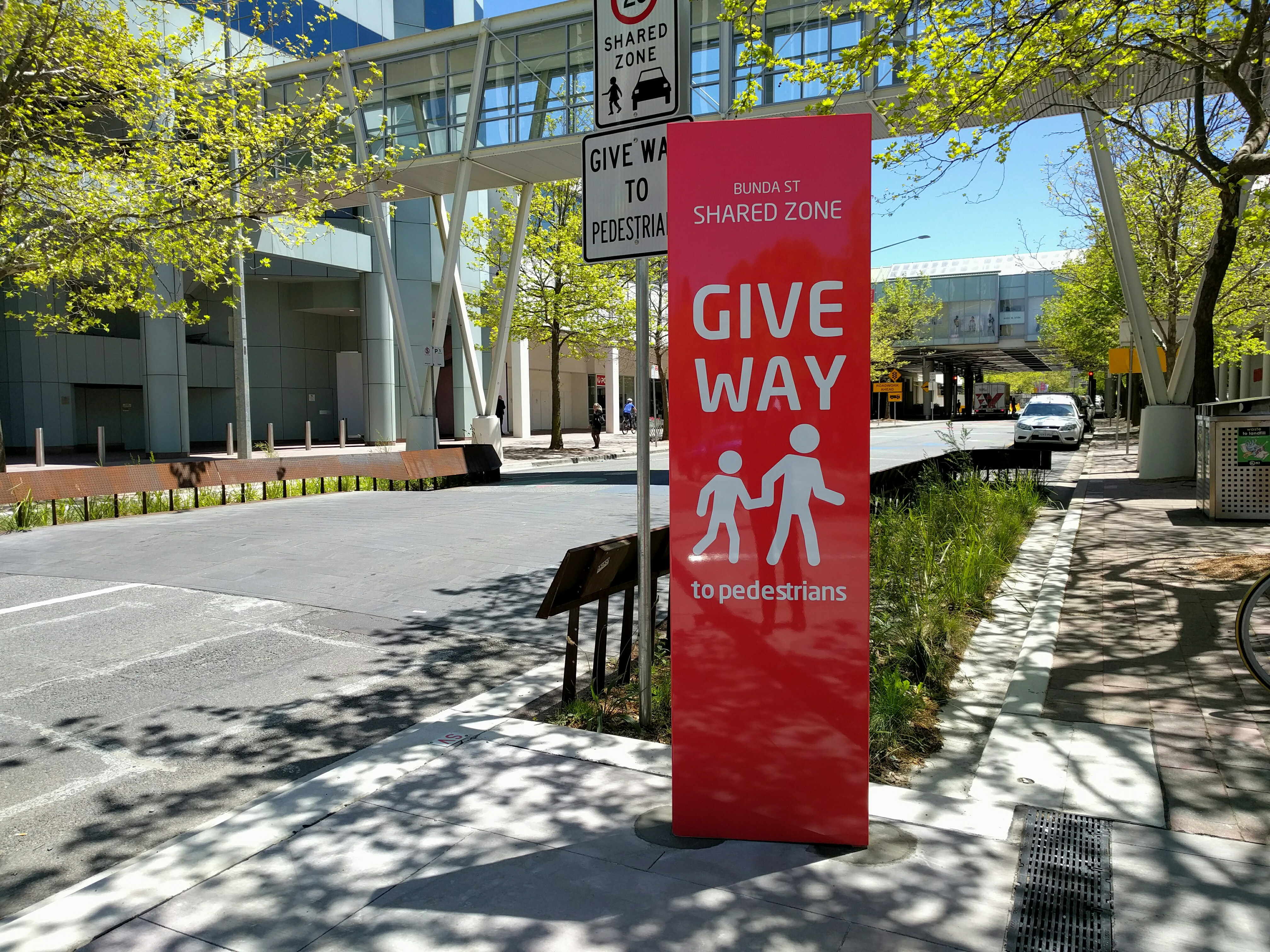 A sign marking the shared zone area of Bunda Street in Civic